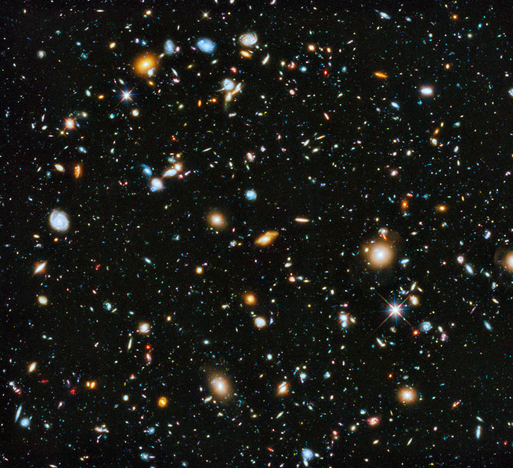 Astronomers using NASA's Hubble Space Telescope have assembled a comprehensive picture of the evolving universe – among the most colorful deep space images ever captured by the 24-year-old telescope. Researchers say the image, in new study called the Ultraviolet Coverage of the Hubble Ultra Deep Field, provides the missing link in star formation. The Hubble Ultra Deep Field 2014 image is a composite of separate exposures taken in 2003 to 2012 with Hubble's Advanced Camera for Surveys and Wide Field Camera 3. Image #: Date: July 30, 2015